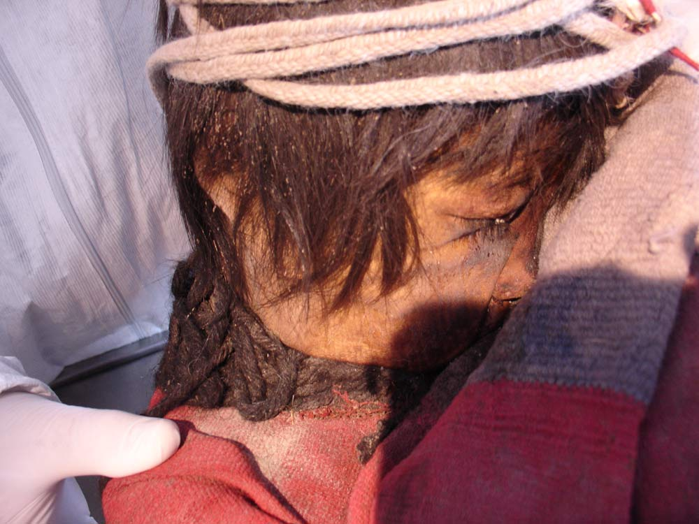 Llullaillaco mummies in Salta province (Argentina).